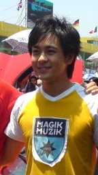 Jimmy Lin,in zhuhai, the photo using Sony Ericsson W810c camera.